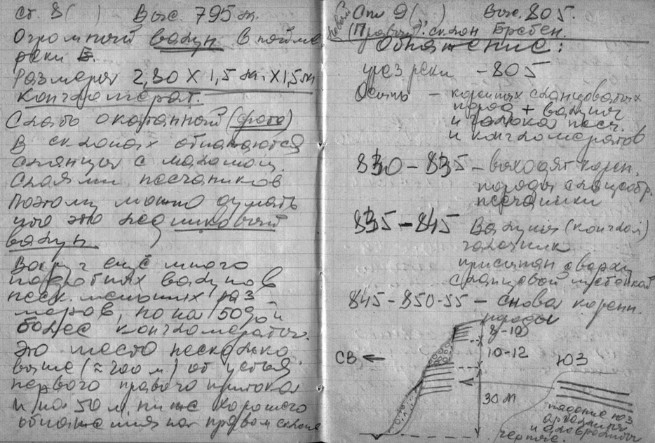 Miller G. notes